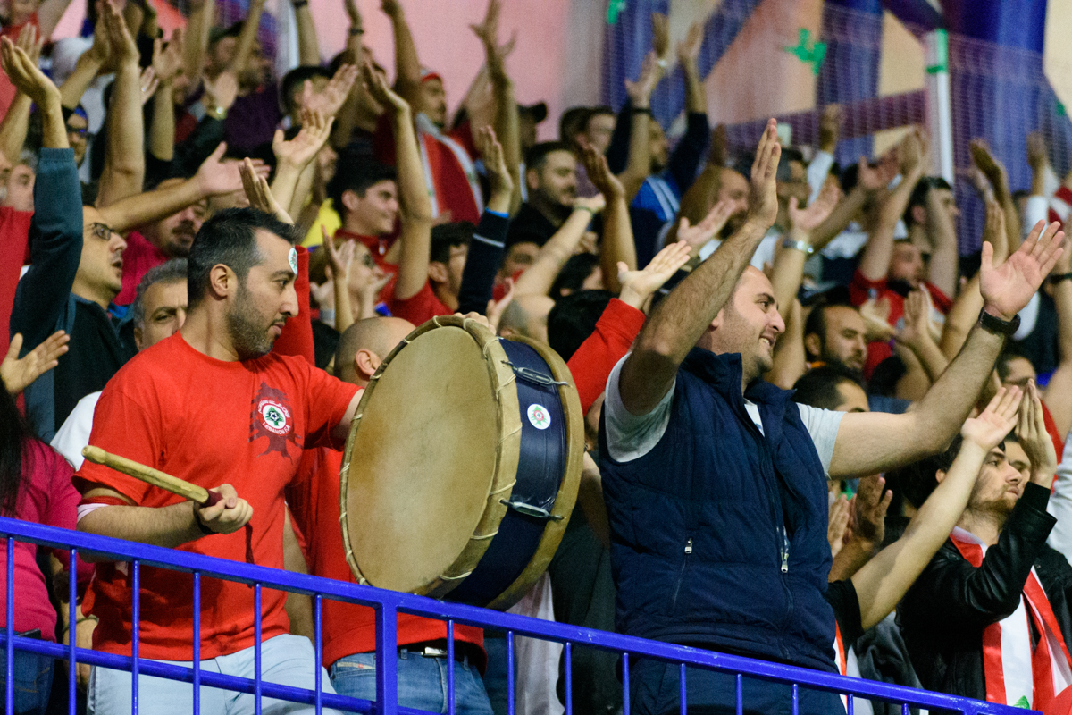 Lebanse fans at the Asian Cup 2019